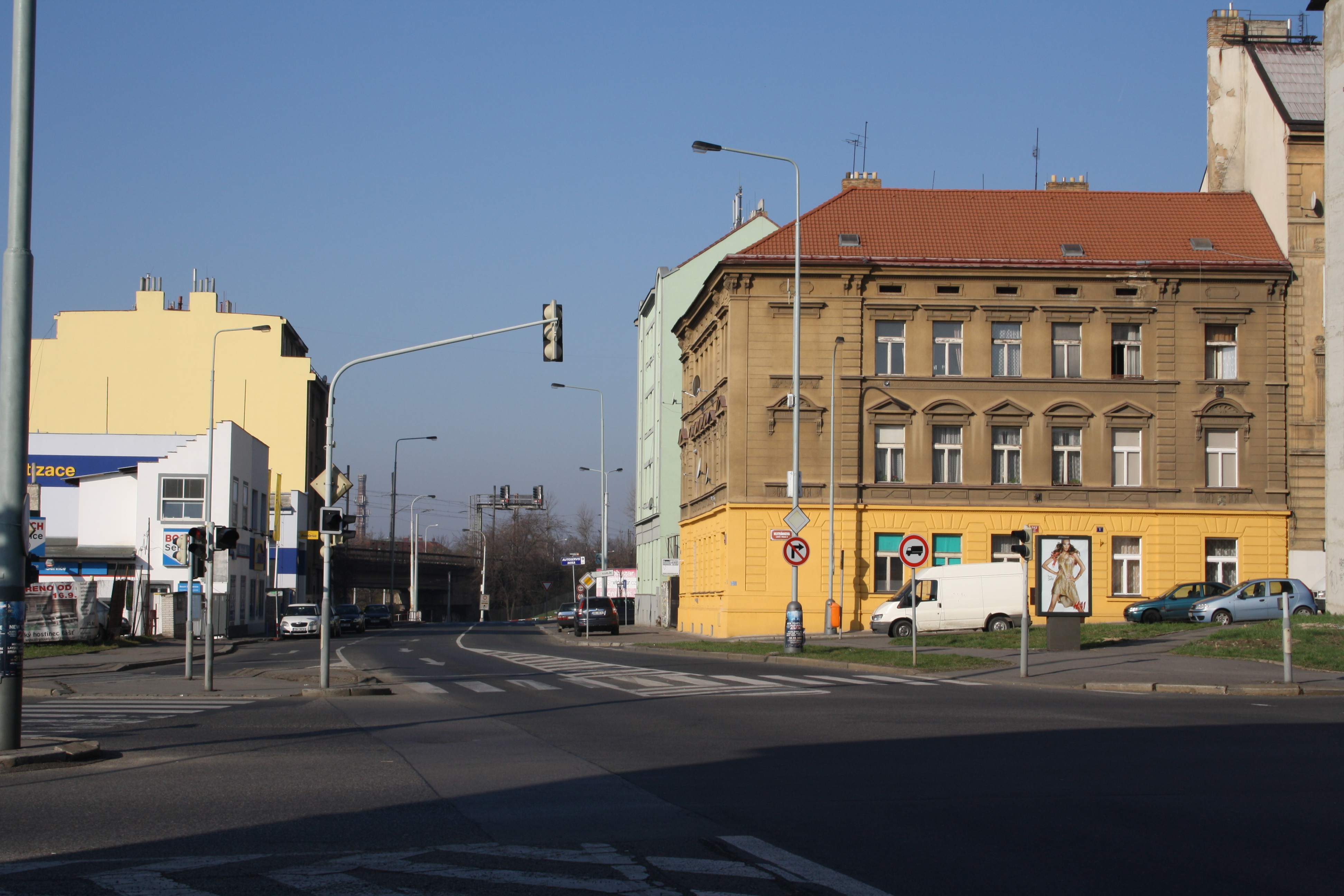 Crossroads Prosecká, Hejtmánkova; Libeň, Praha, Czech republice